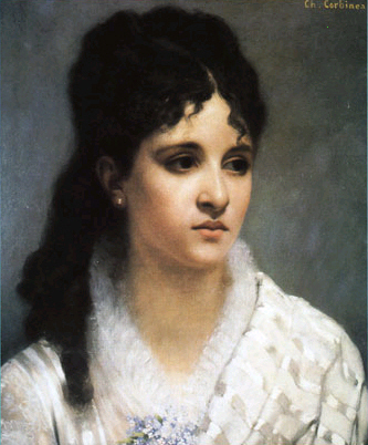 Mélanie Hélène "Mel" Bonis (1858-1937), French composer, at age 27